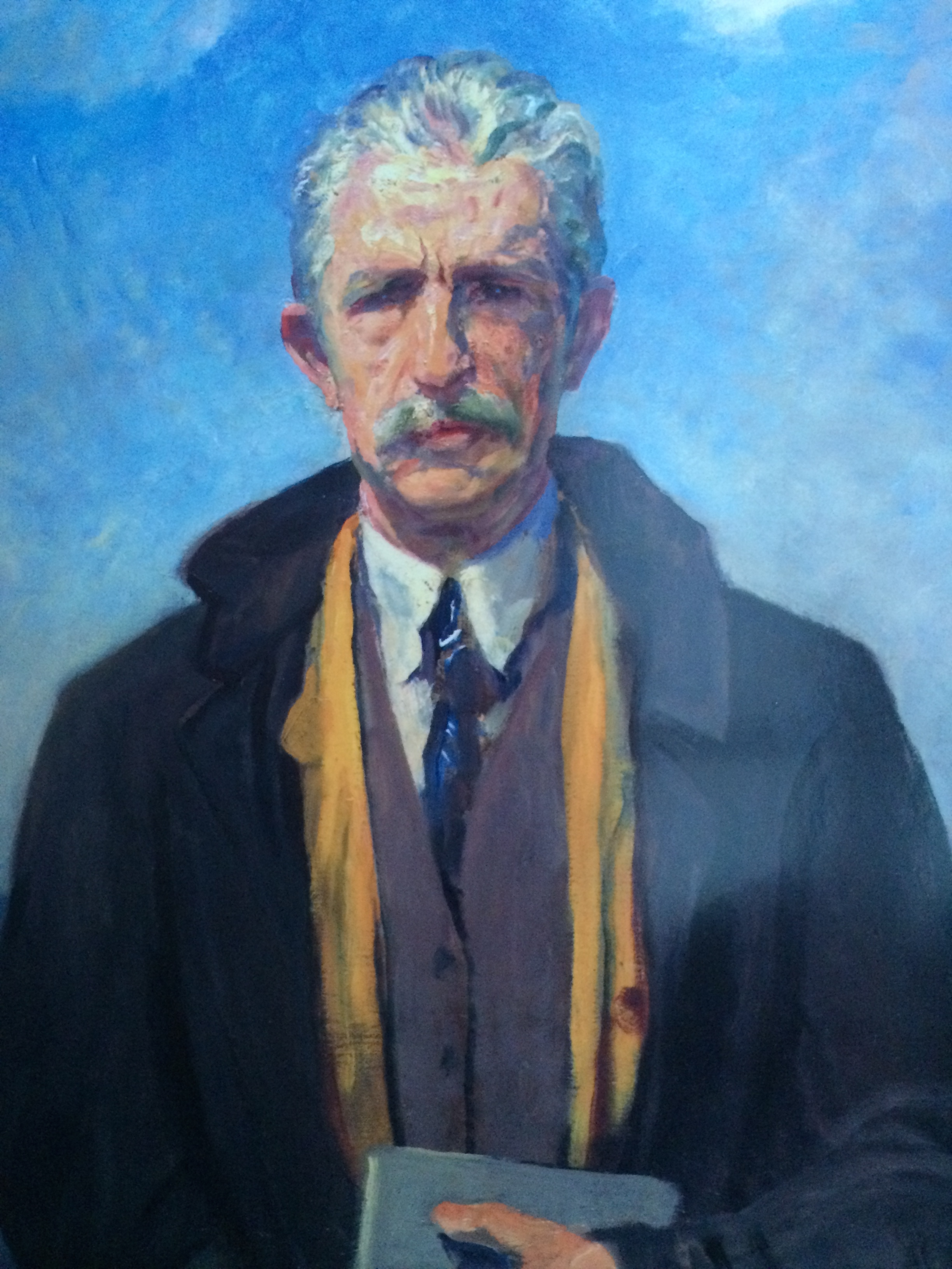 Self portrait of Oszkár Mendlik